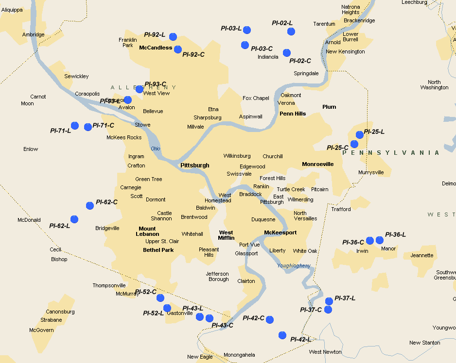 Pittsburgh Defense Area Nike Missile Sites